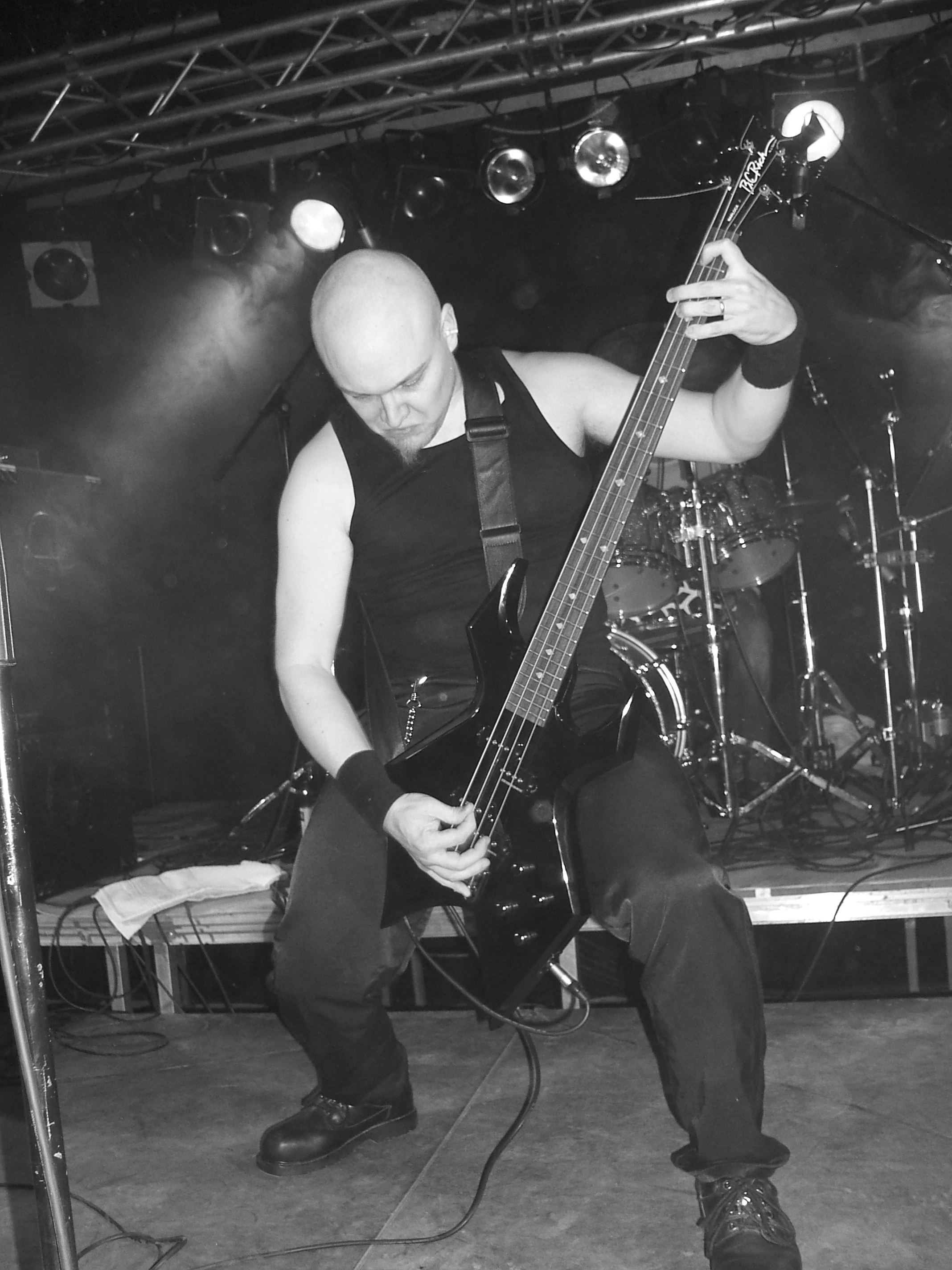 Finnish melodic death metal musical group Immortal Souls' bassist-vocalist Aki Särkioja at Metalfest 07, Bad Hersfeld, Germany.